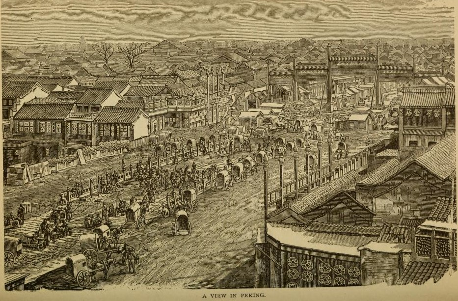 Lithograph of a view in Peking (Beijing) about 1877 from China and Japan: A Record of Observations Made During a Residence of Several Years in China, by Rev. I. W. Wiley (1825-1884). Cincinnati, 1879.